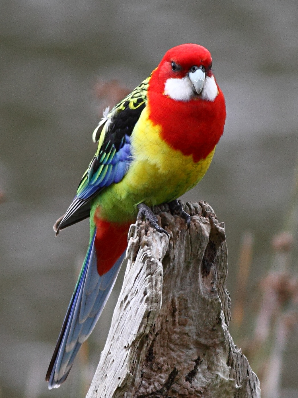 An Eastern Rosella at The Briars, Mount Martha, Melbourne, Victoria, Australia.